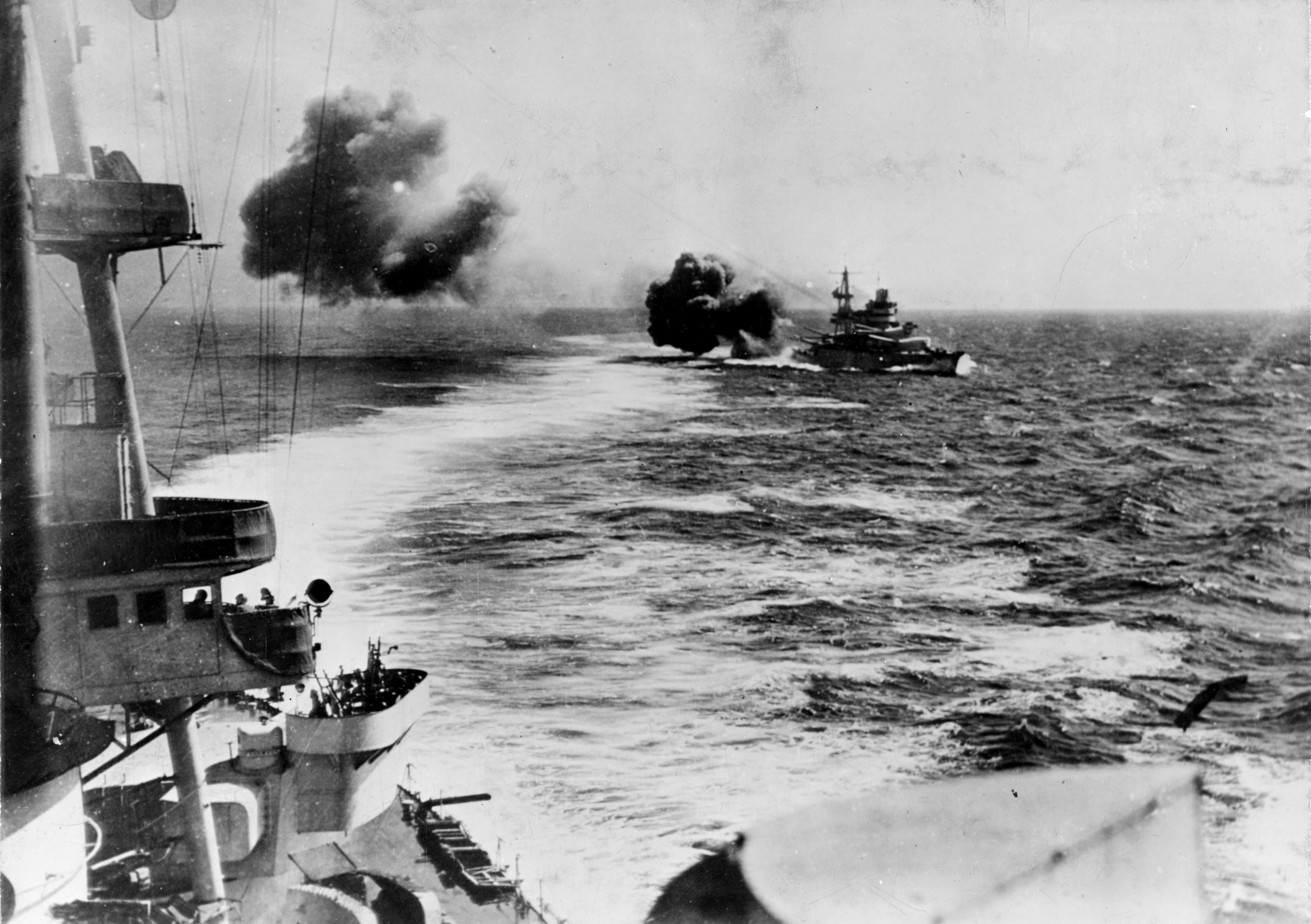 The Italian battleship Conte di Cavour opening fire during the Battle of Calabria